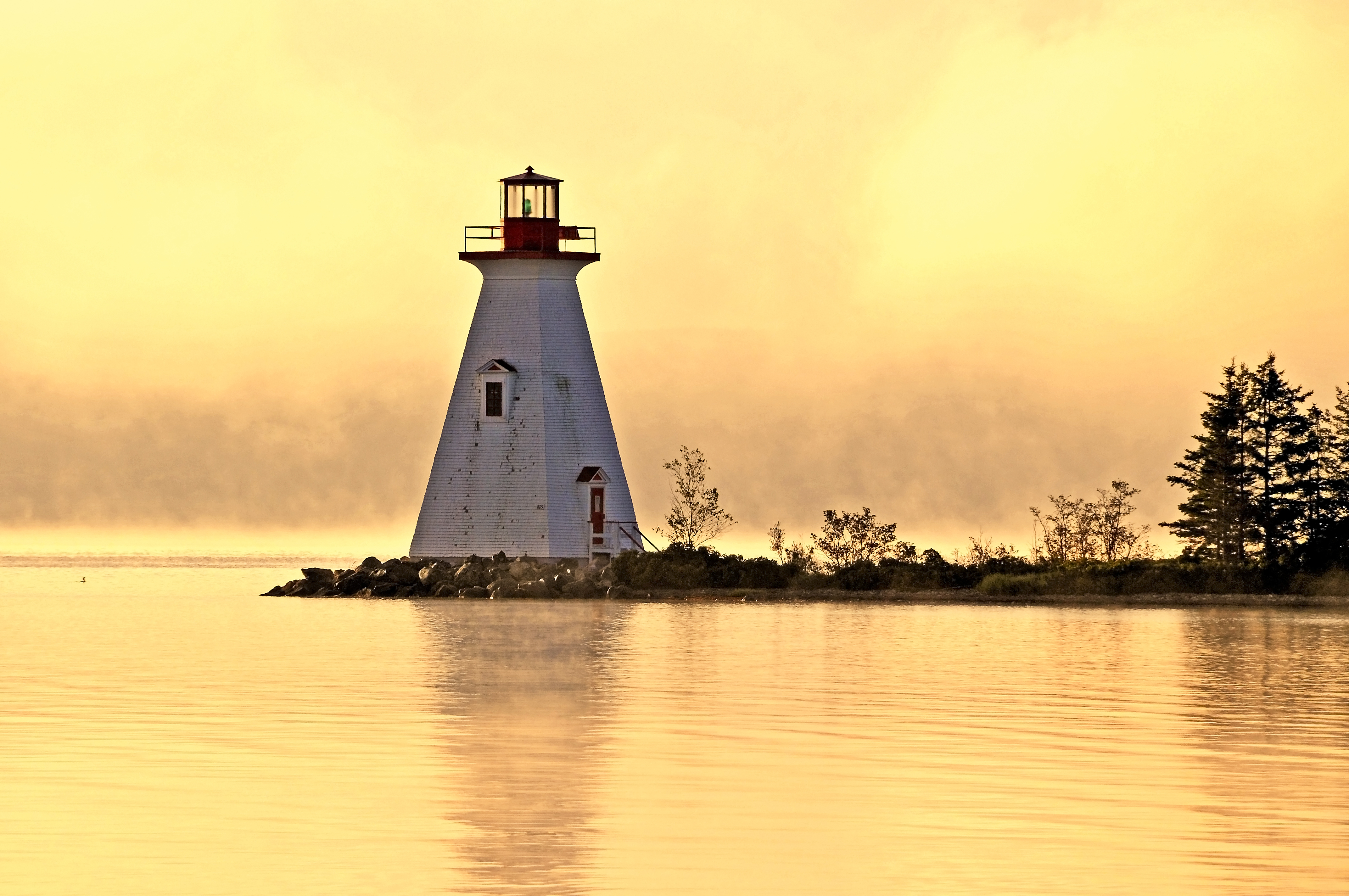 Kidston Island Lighthouse. This light is situated on Kidston Island in Baddeck. It is a white square tower that is 15.24 meters (50ft) high, with the light height 14.6 meters (48ft) above the water level. The first lighthouse was established here in 1872. Began and Lit: 1875 Scenic Drive: Bras d'Or Lakes